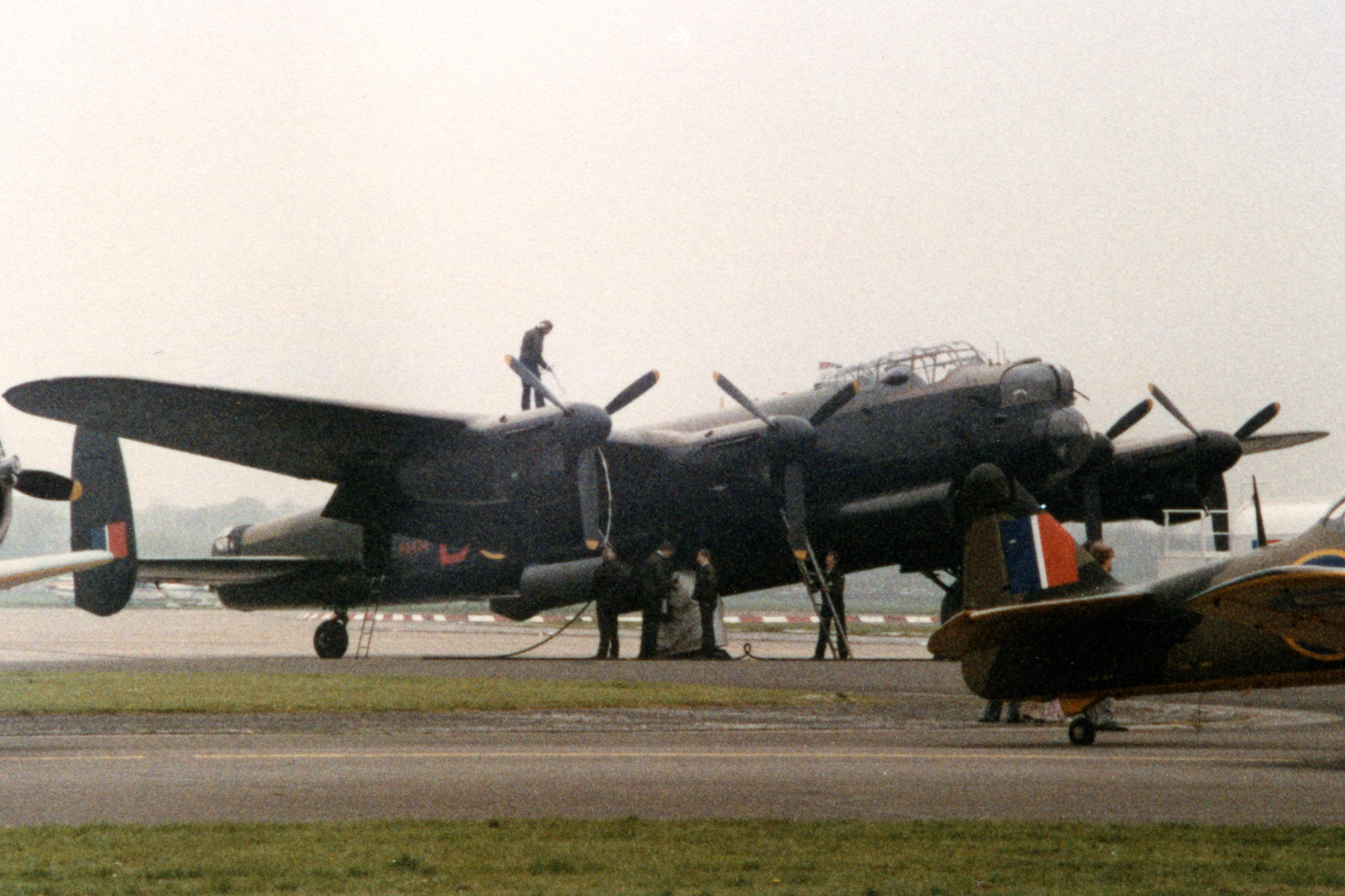 Avro Lancaster at Rotterdam Airshow, 1985